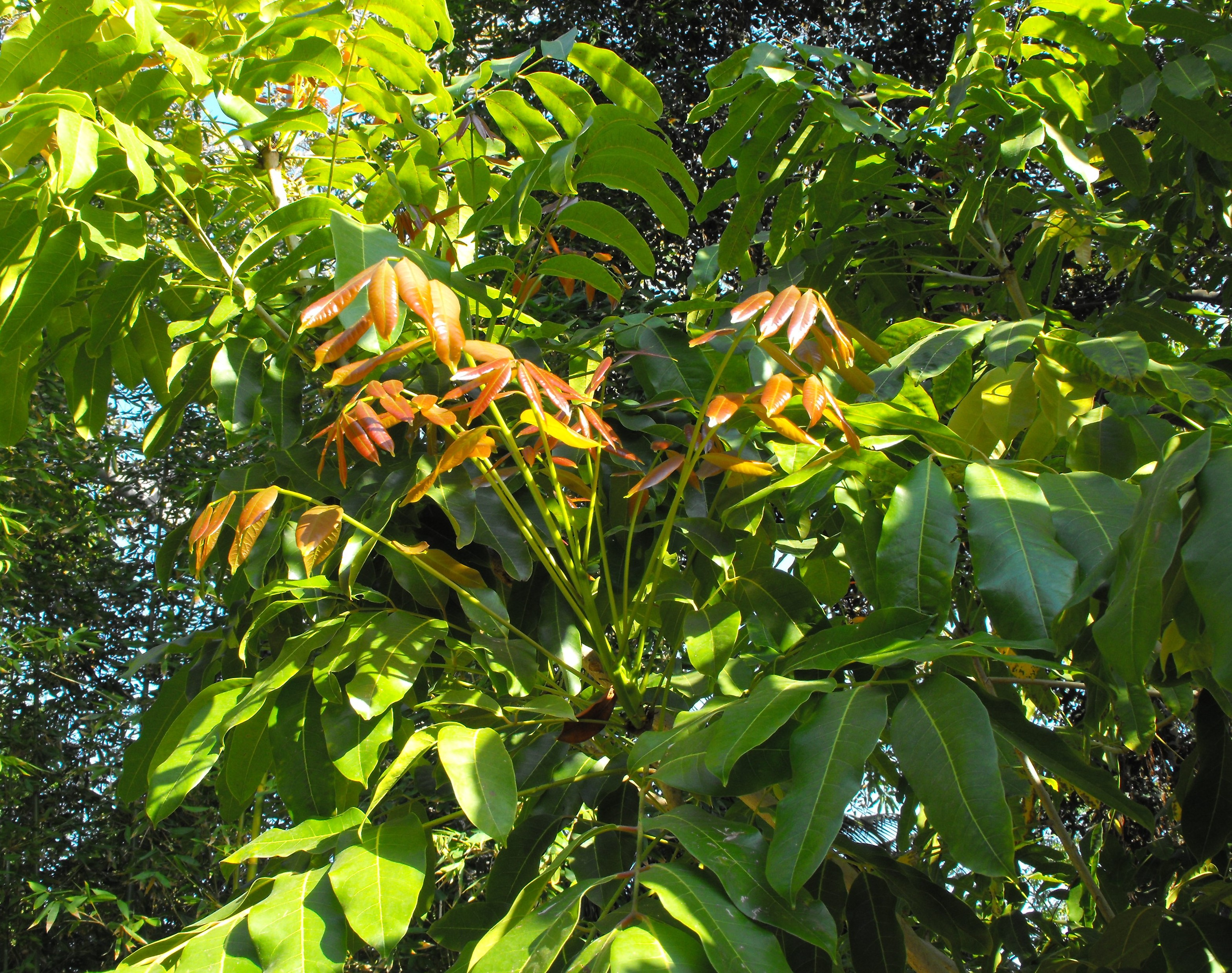 Khaya nyasica at the San Diego Zoo, California, USA. Identified by sign.